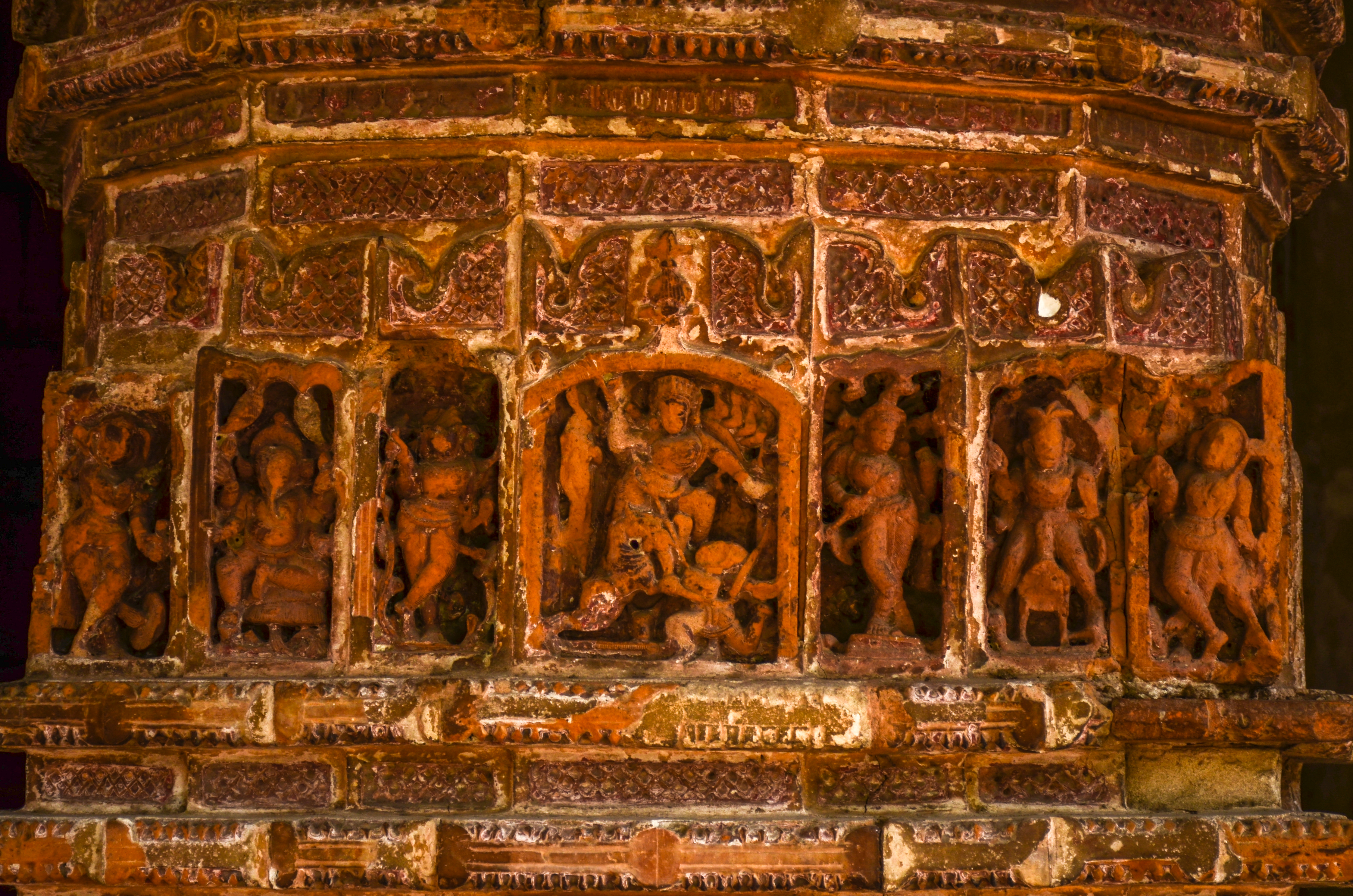 Photographed at Krishnachandra temple, Katwa